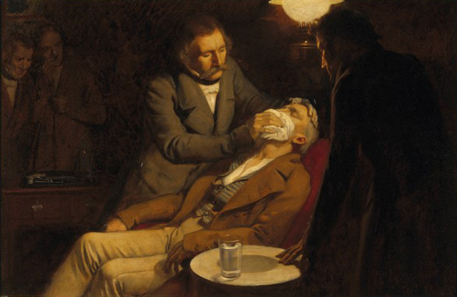 Illustrates the first use of ether as an anaesthetic in 1846 by the dental surgeon W.T.G. Morton